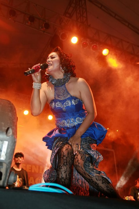 Dangdut singer Yan Vellia at Pesta Kesenian Rakyat in Pacitan, East Java, Indonesia